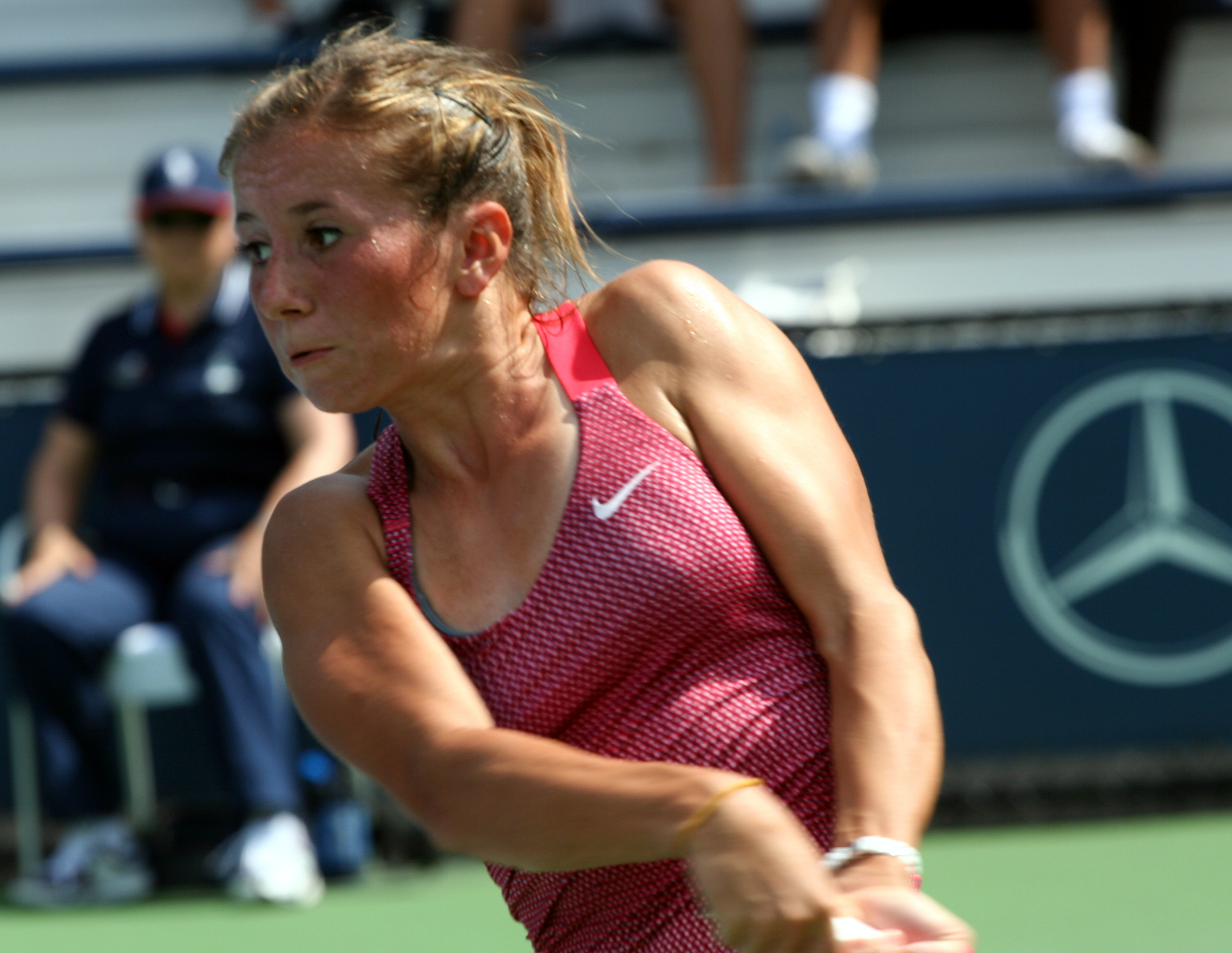 Annika Beck at the 2013 US Open